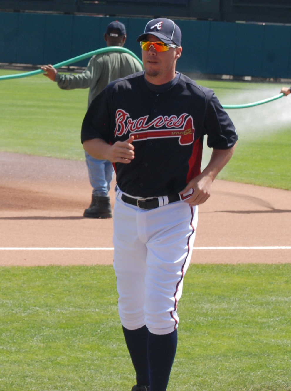 Chipper Jones coming to the dugout in a Spring Training game against the Houston Astros on February 28, 2011 in Lake Buena Vista, Florida.